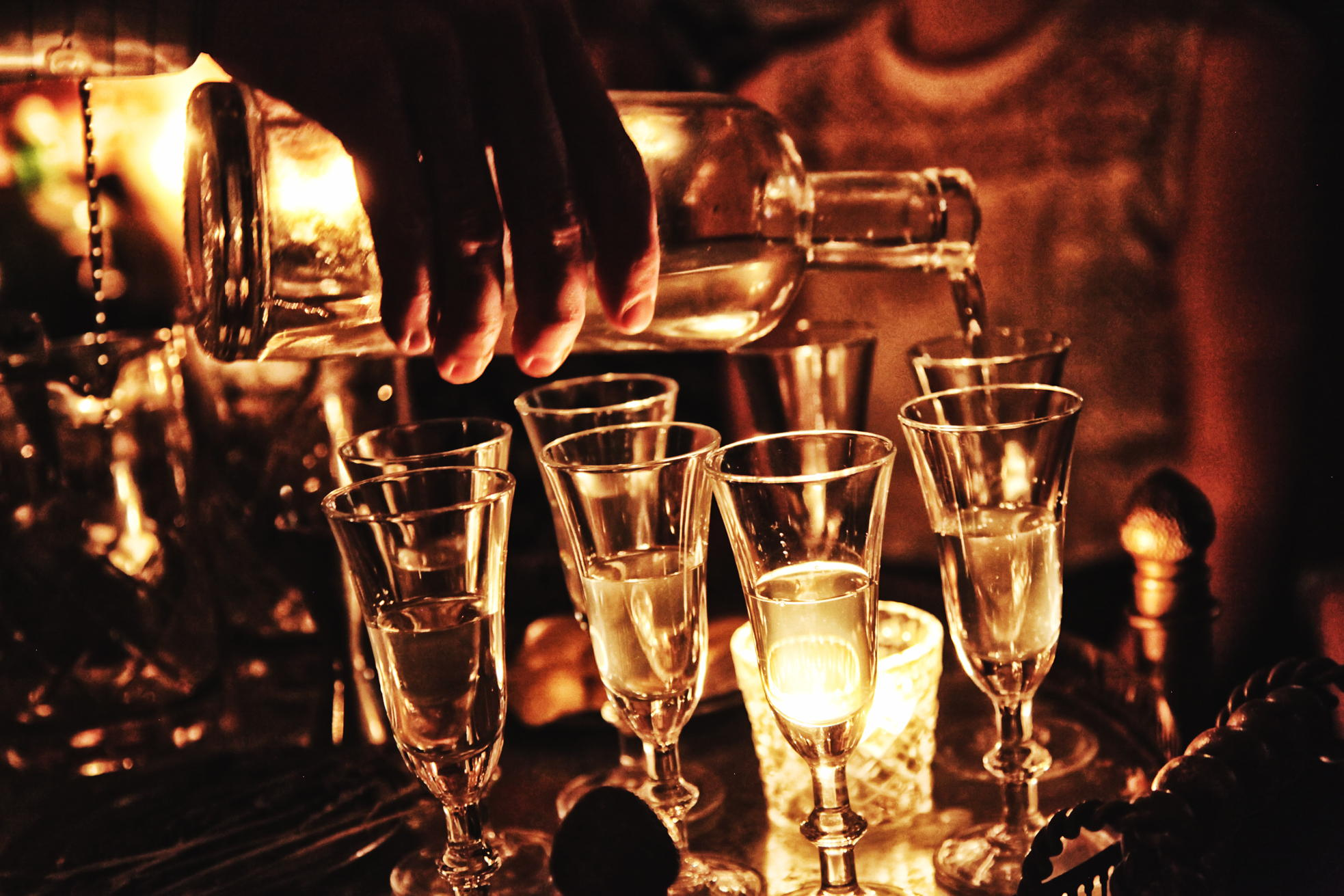 Filling glasses with gin